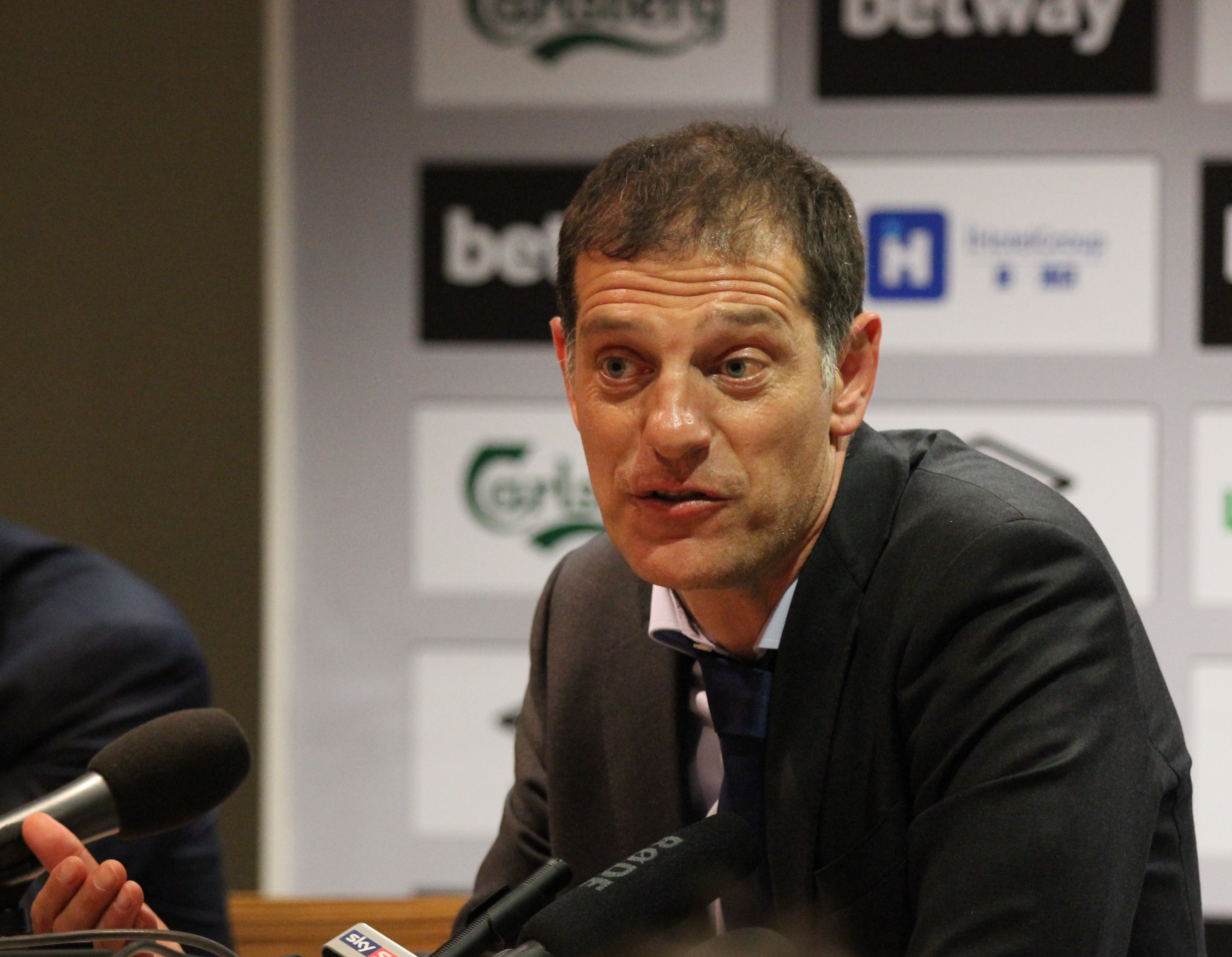 West Ham manager Slaven Bilic during his post-match press conference.